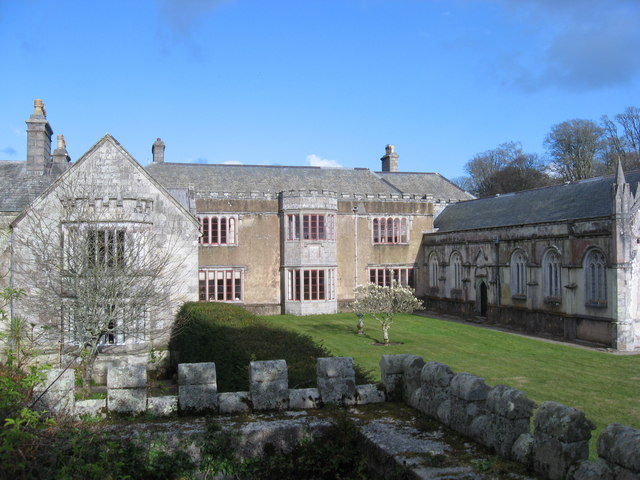 Trelowarren manor house This ancient manor house is the seat of the Vyvyan family; life here was beautifully described by lady C C Vyvyan in her book 'The Helford River'.